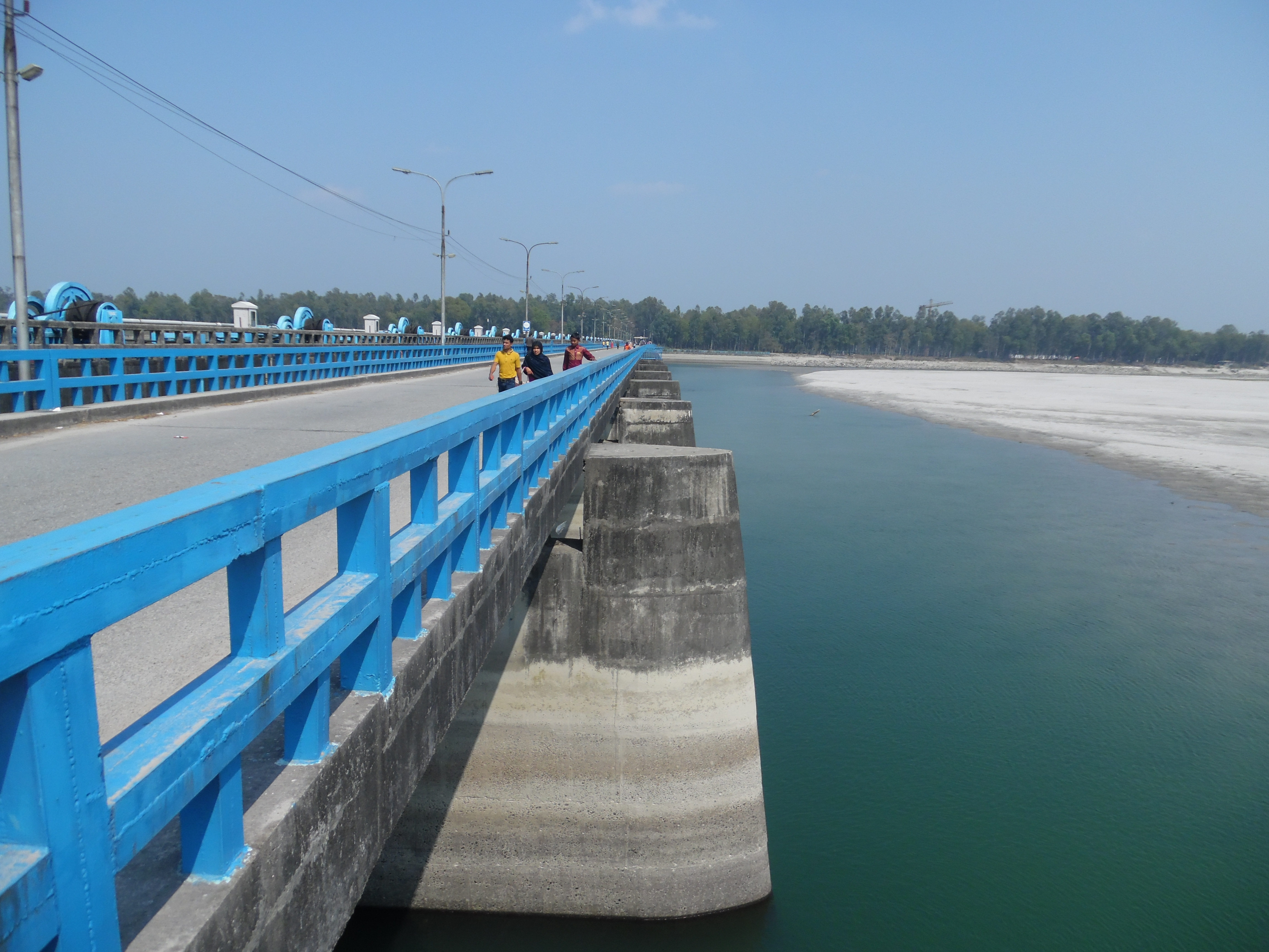 Tista Barrage on the river Tista at Dalia, Nilphamari, Bangladesh. (01.03.2019)